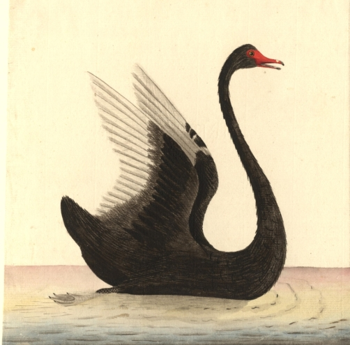 Very early depiction of Cygnus atratus, given the title "Black Swan", native name "Mulgo"